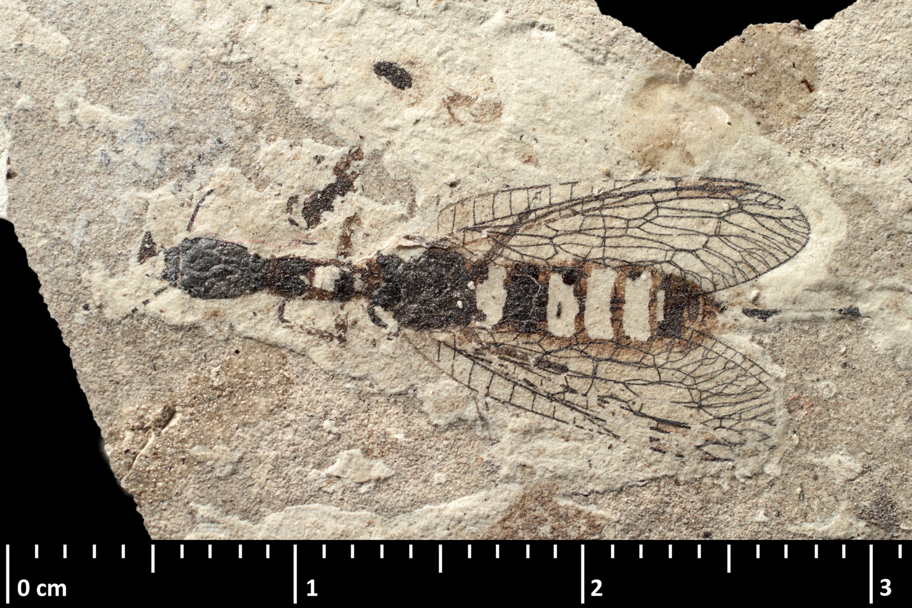 The Ohmella coffini holotype specimen part side with direct lighting. Turolian, Miocene; Montagne d'Andance, Saint-Bauzile, Privas, France Muséum national d'Histoire naturelle specimen MNHN.F.R10410